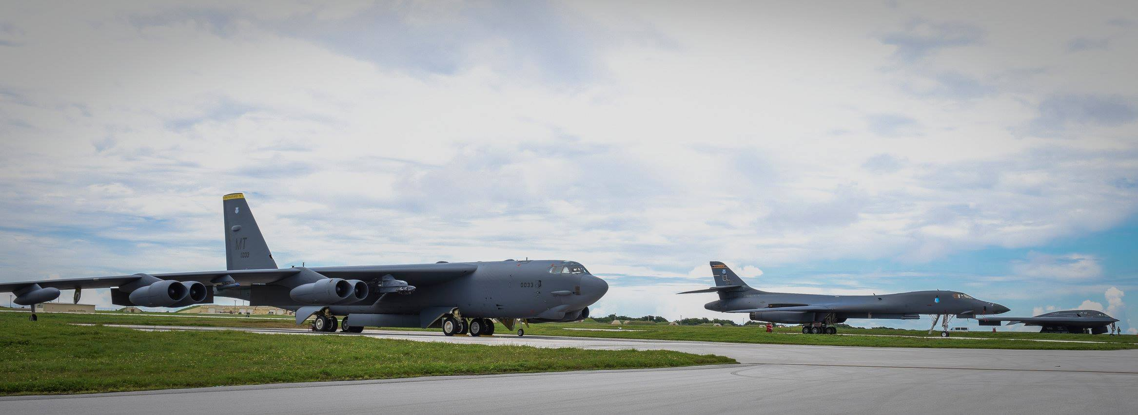 A B-52 Stratofortress, B-1B Lancer and B-2 Spirit sit beside one another on the flightline at Andersen Air Force Base, Guam, Aug.10, 2016. The occasion marked the first time in history that all three of Air Force Global Strike Command's strategic bombers were positioned to simultaneously conduct operations in the U.S. Pacific Command region. (U.S. Air Force photo/Tech. Sgt. Richard Ebensberger)